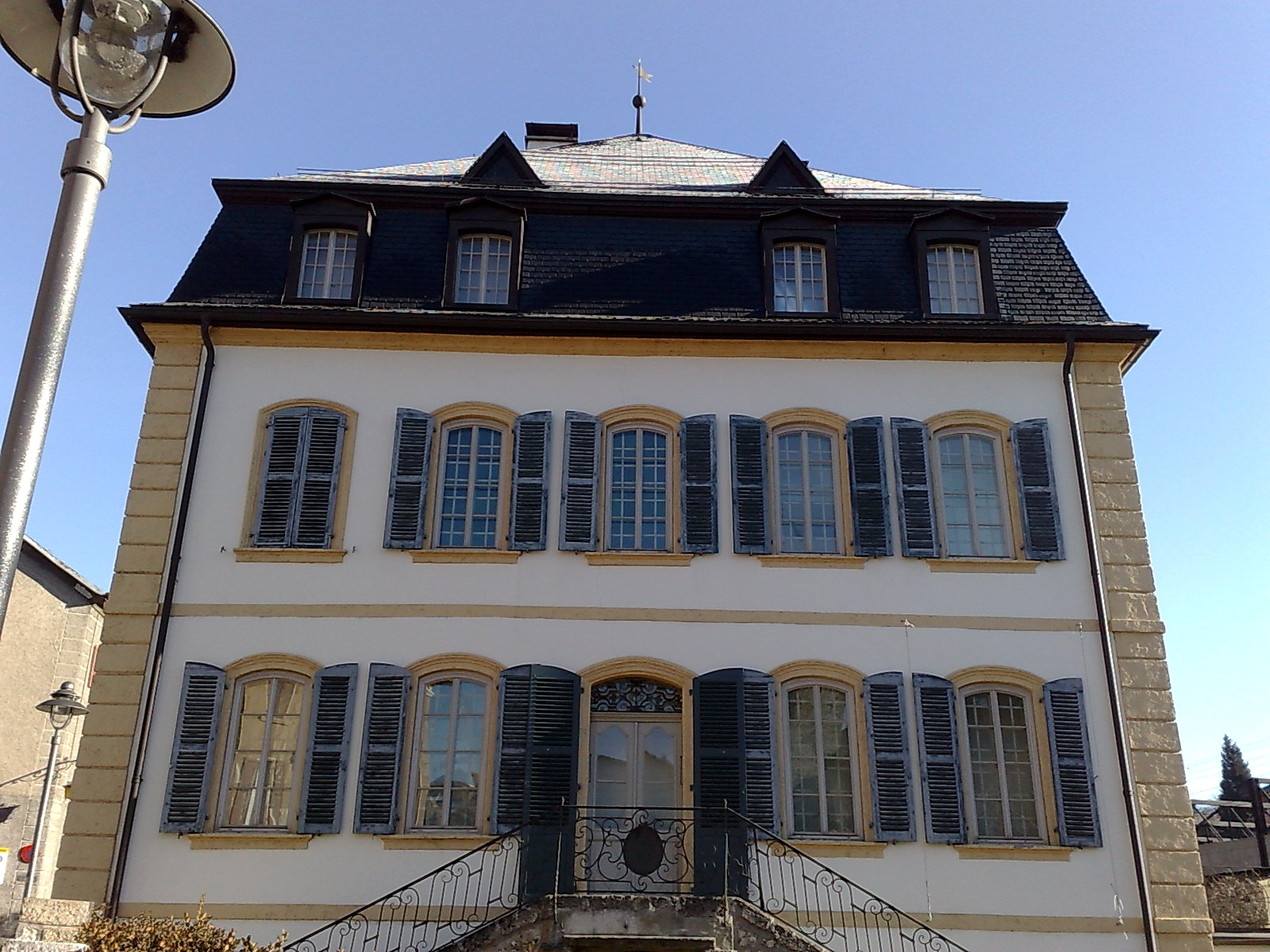 The Pancrace de Courten mansion in Sierre, Valais, Switzerland, home, since 1987, of the Rainer Maria Rilke Foundation.